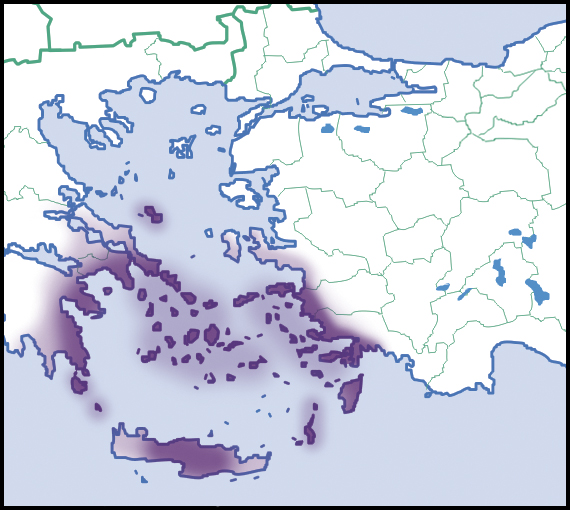 Pyramidula chorismenostoma (Blanc, 1879). Distribution in Europe, scientific state of knowledge of 2012. Source description in English. Light colour indicated rare occurrences or regions where the species could eventually be expected to occur. Dark colour indicated relatively reliable occurrences, as well as regions where the species was expected to occur, and where the species was not known to be extremely rare. Dark colour indications were not necessarily based on published records. Species summary in AnimalBase